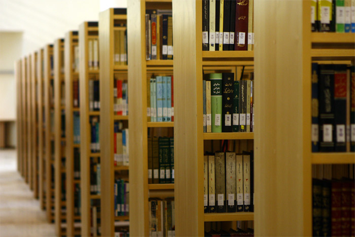 فضای داخلی کتابخانه میرداماد